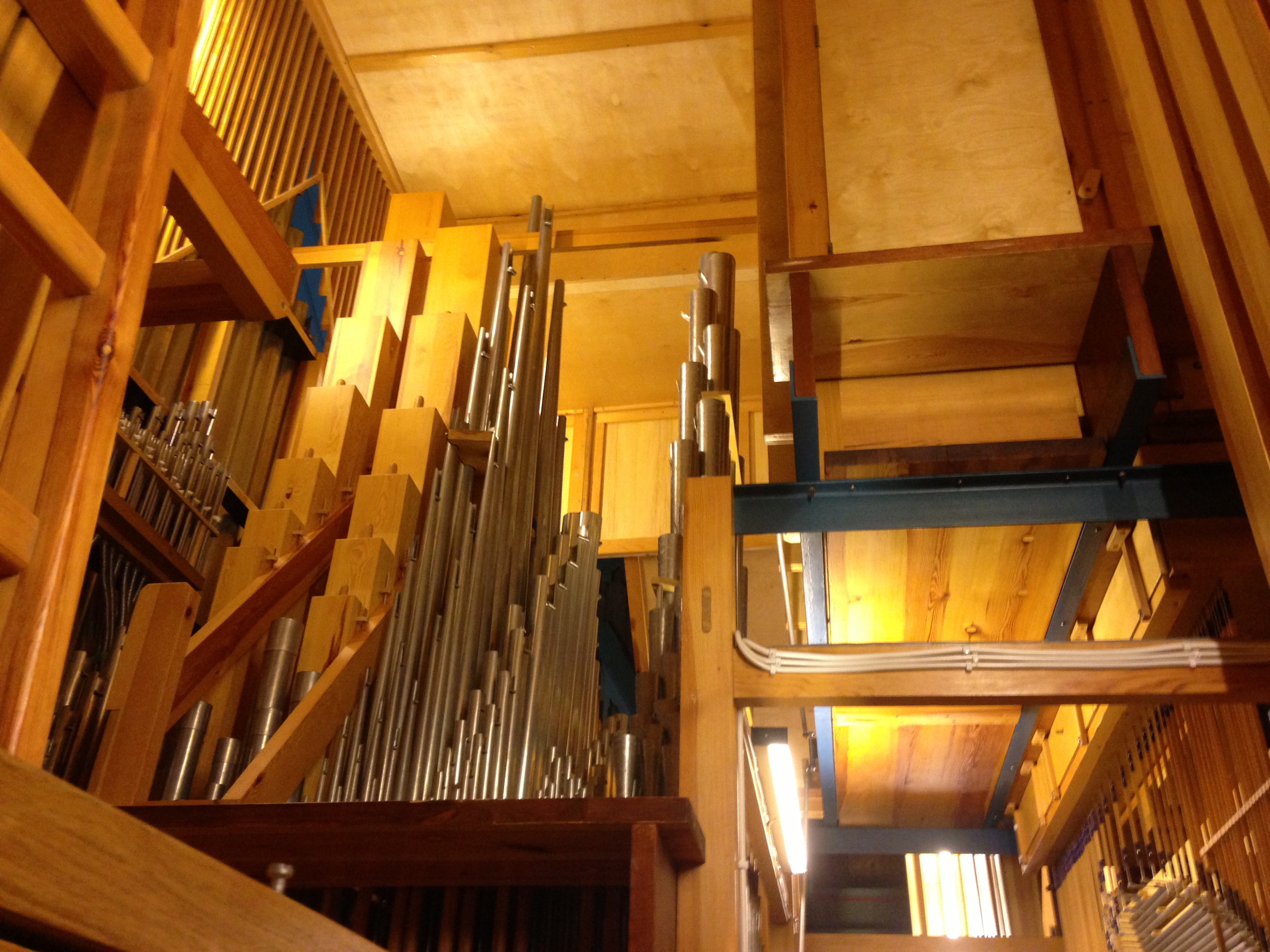 Inside the organ i Manger church, Norway